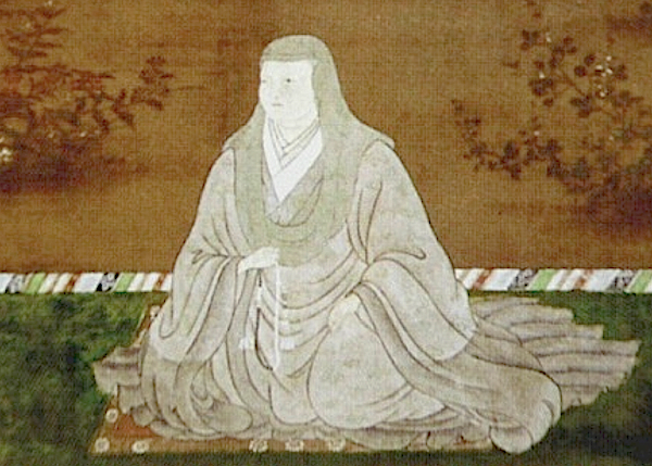 Lady Kōdai-in (Nene) (1579–1624)